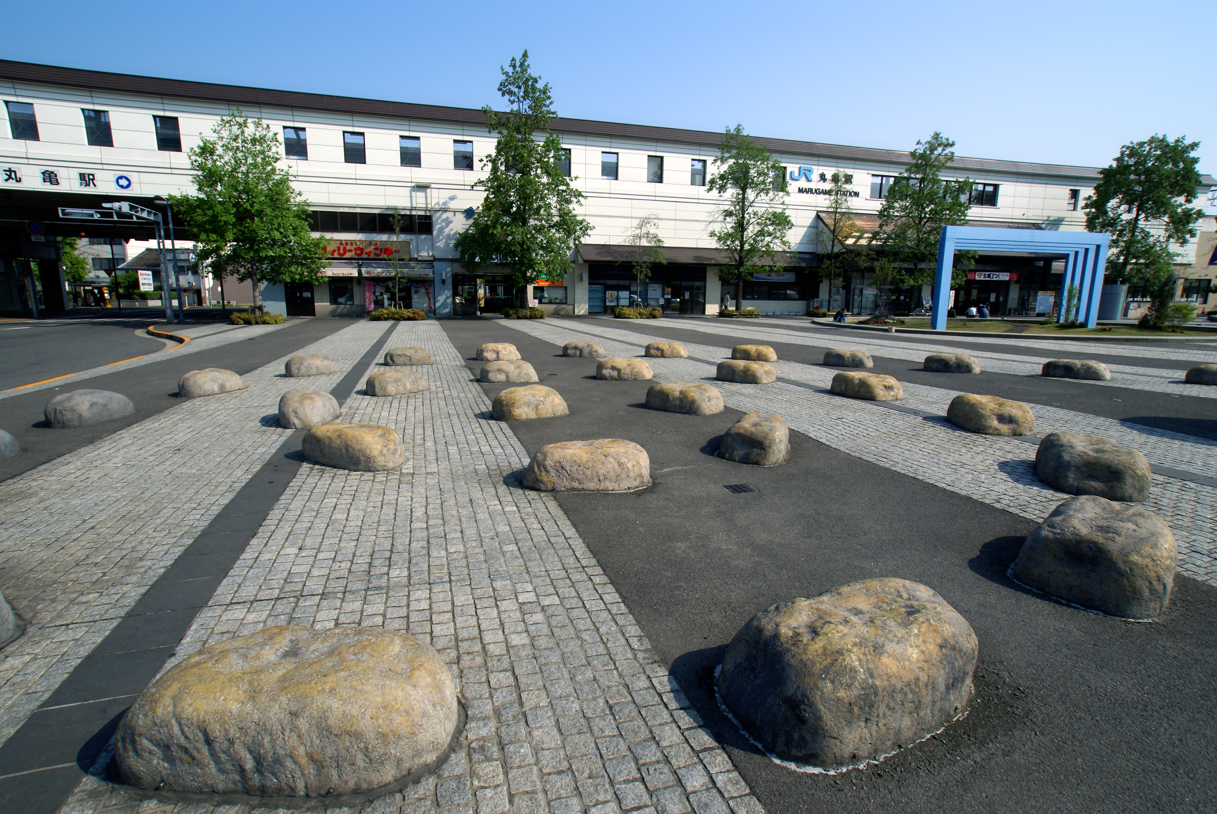 Marugame Station in Marugame, Kagawa prefecture, Japan